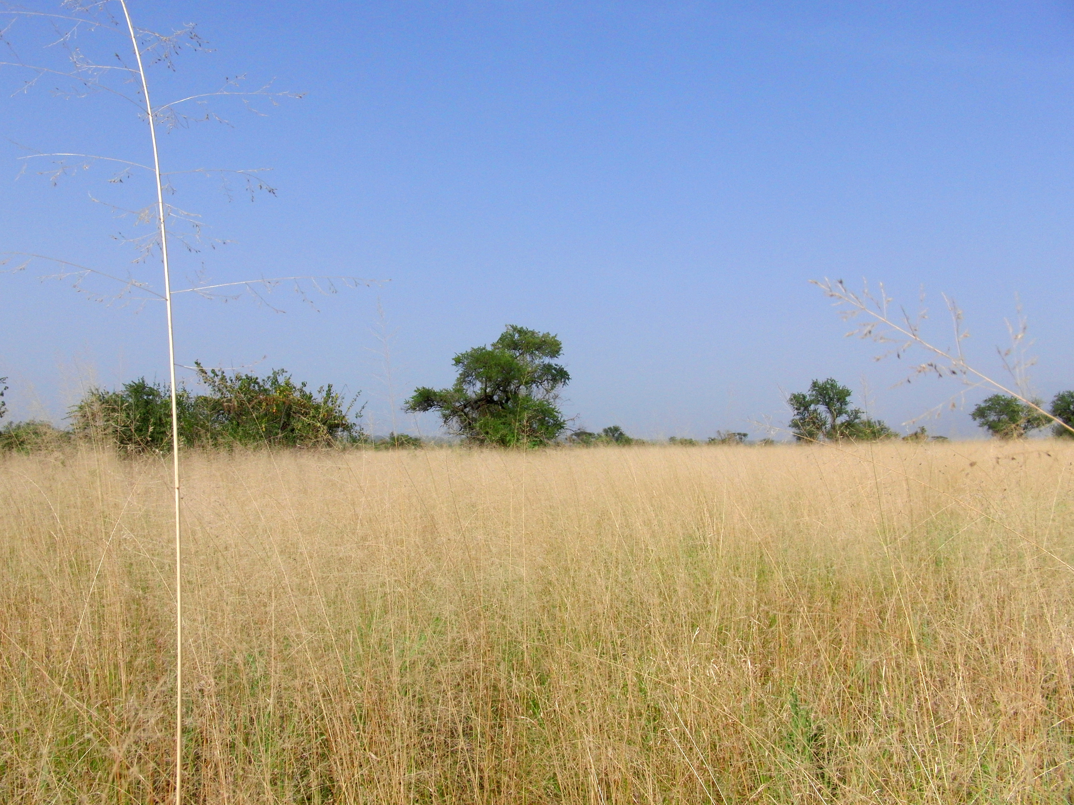 Savanna in the Omo Valley, Southwest Ethiopia.